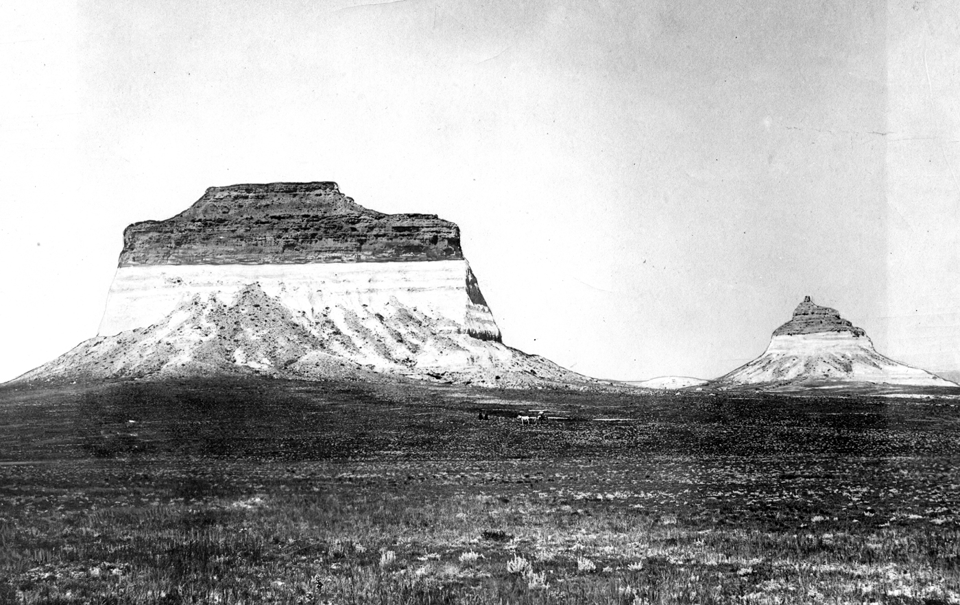 Pawnee Buttes consists of Arikaree sandstone on Brule clay with a strong unconformity due to erosion; typical beds of concretions in Arikaree formation. Weld County, Colorado (Circa 1900).